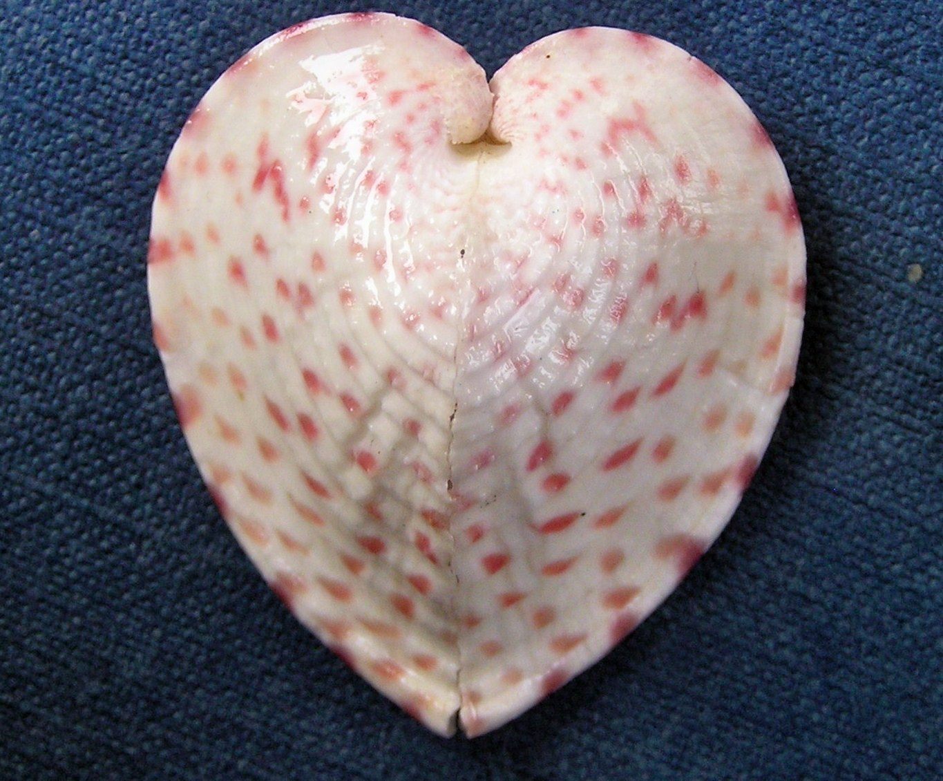 Corculum cardissa (Linnaeus, 1758) , a cockle from the family Cardiidae; Philippines